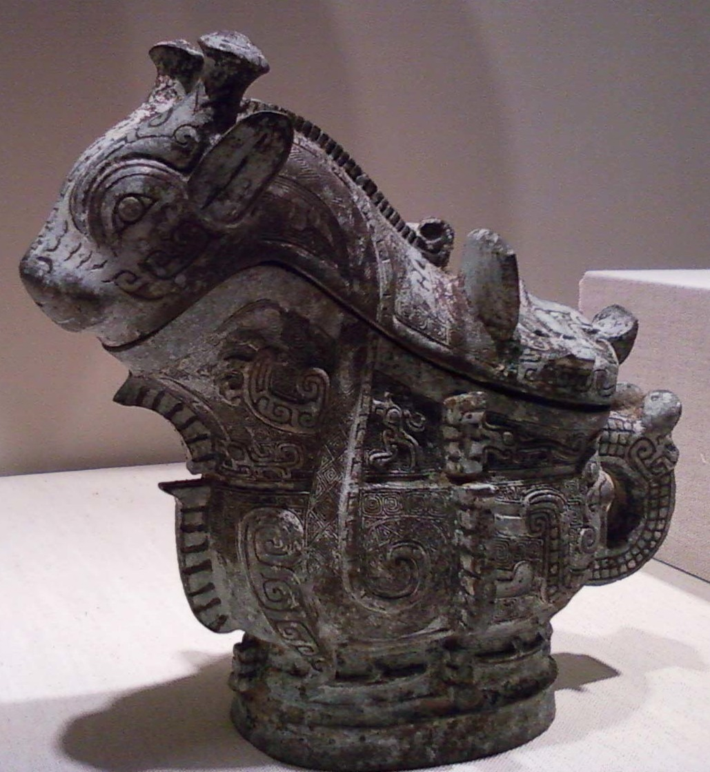 Chinese ritual wine server (guang) from 1100 BCE